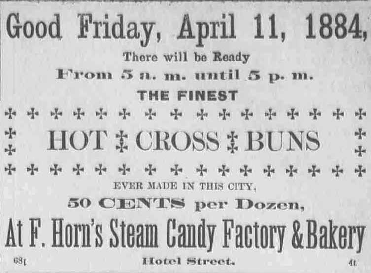 "50 cents per dozen at F. Horn's Steam Candy Factory & Bakery" The Daily Bulletin, April 09, 1884, Image 3 From the University of Hawaii at Manoa Library